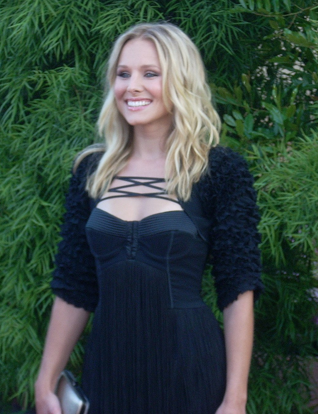 35th Annual Saturn Awards, Burbank, Calif. - June 24, 2009